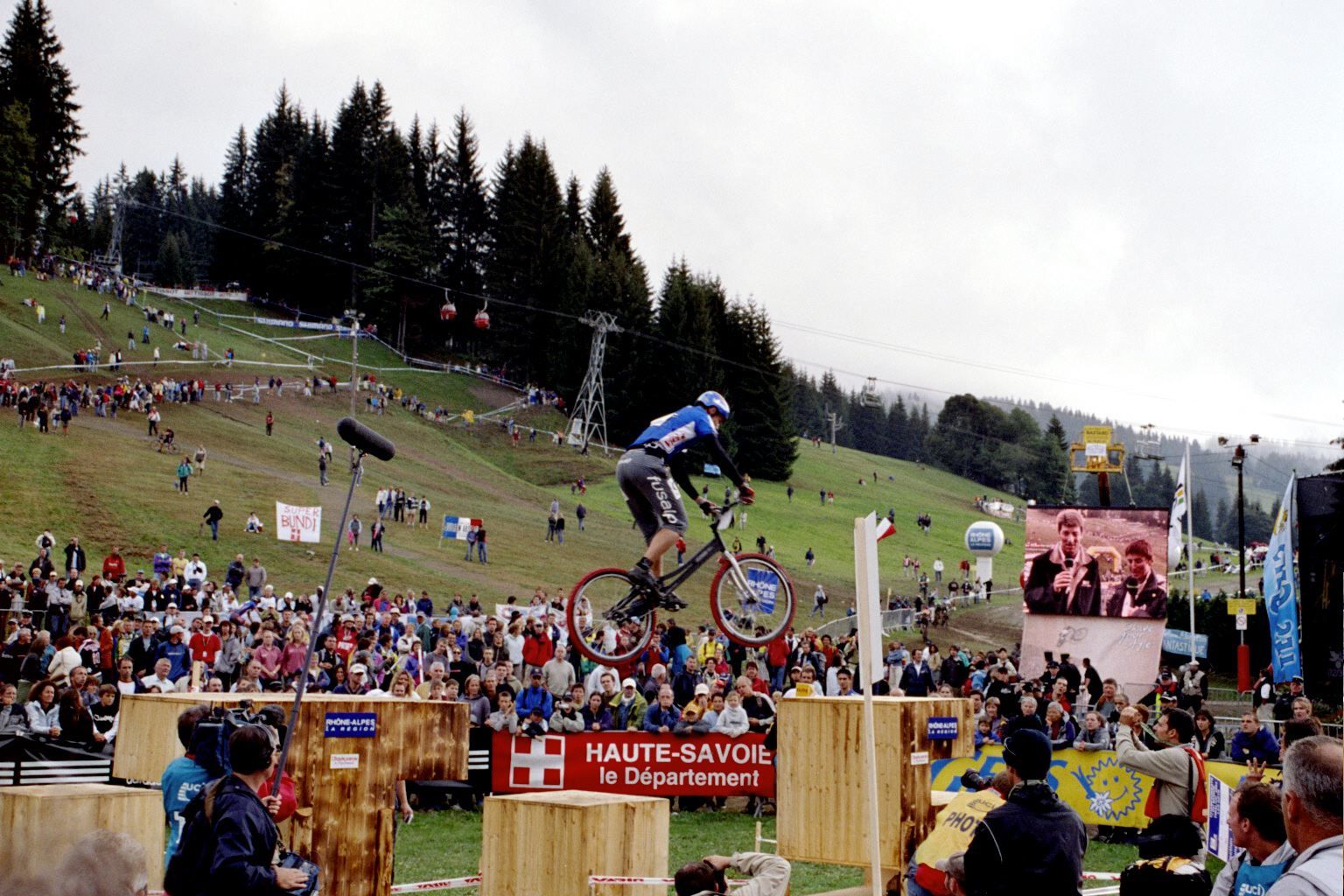 Marc Vinco in trials final at 2004 UCI Mountain Bike and Trials World Championships at Les Gets, France